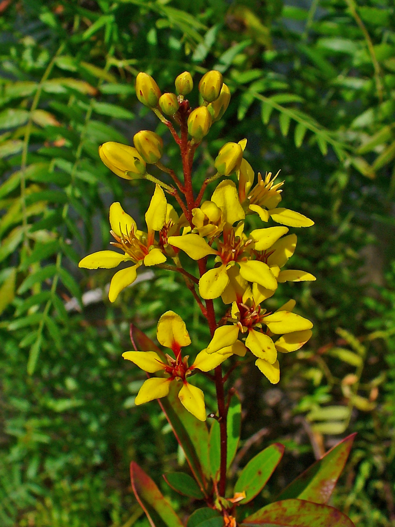 Galphimia glauca, Malpighiaceae, Spray of Gold, inflorescence.